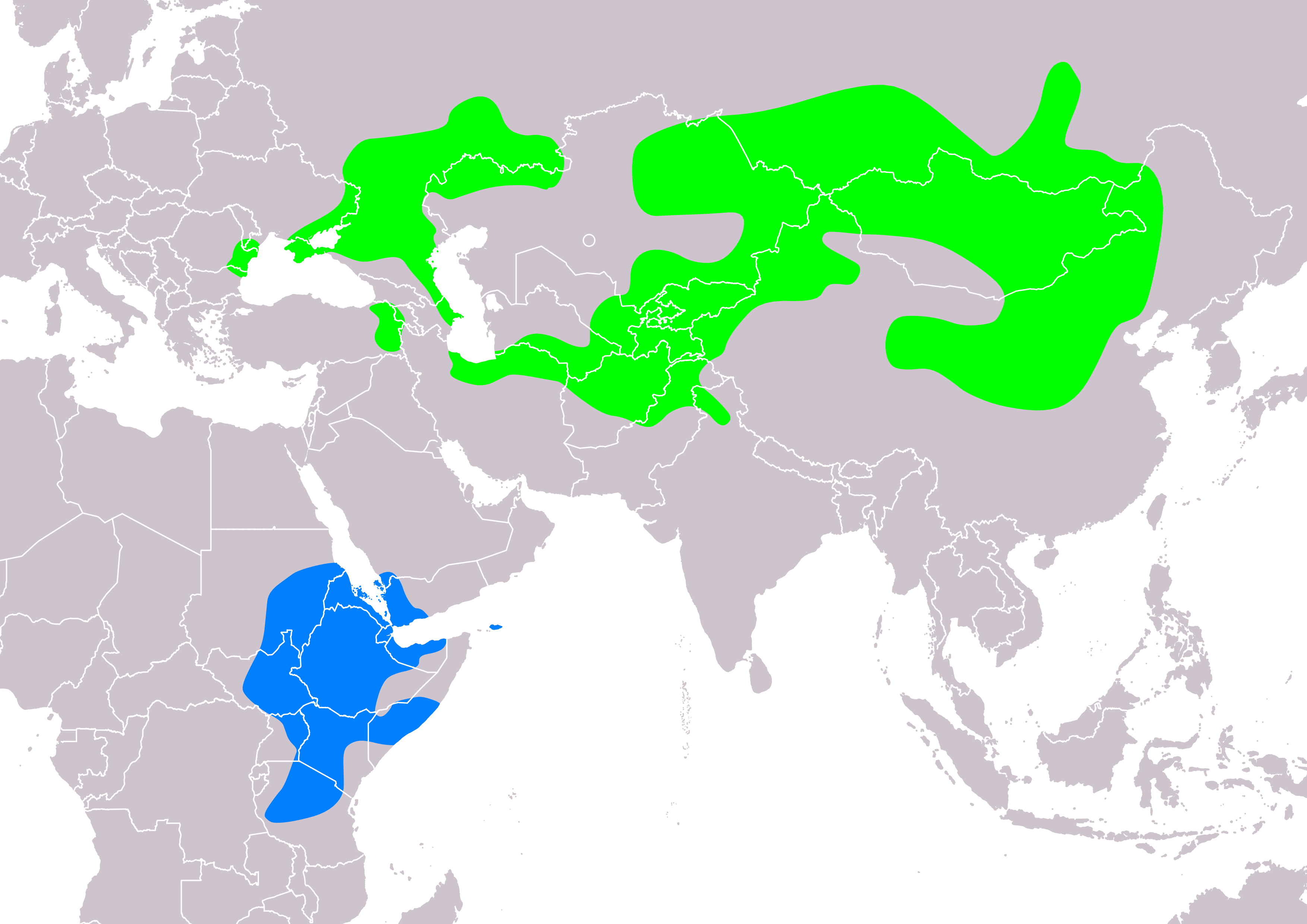 Map of pied wheatear (Oenanthe pleschanka) according to IUCN version 2018.2 , Legend: Extant, breeding (#00FF00), Extant, non-breeding (#007FFF)